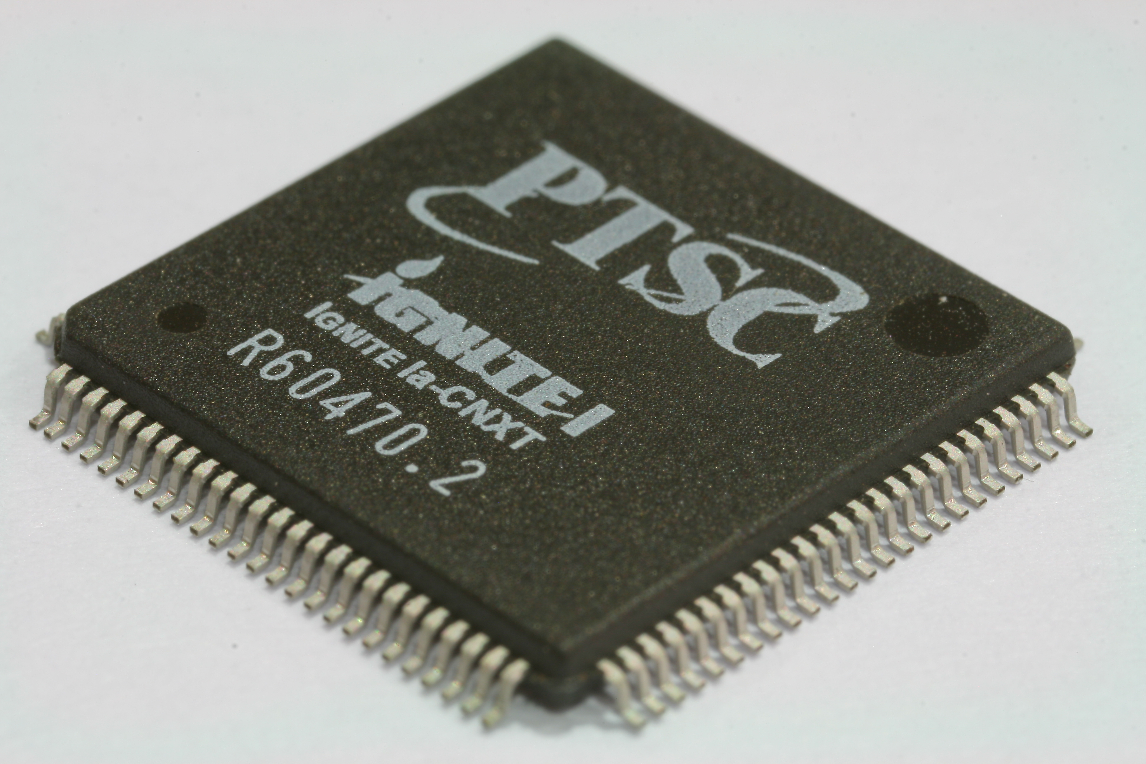 Ignite Ia microprocessor (the picture is of a specimen that did not pass quality inspection and was sorted out)